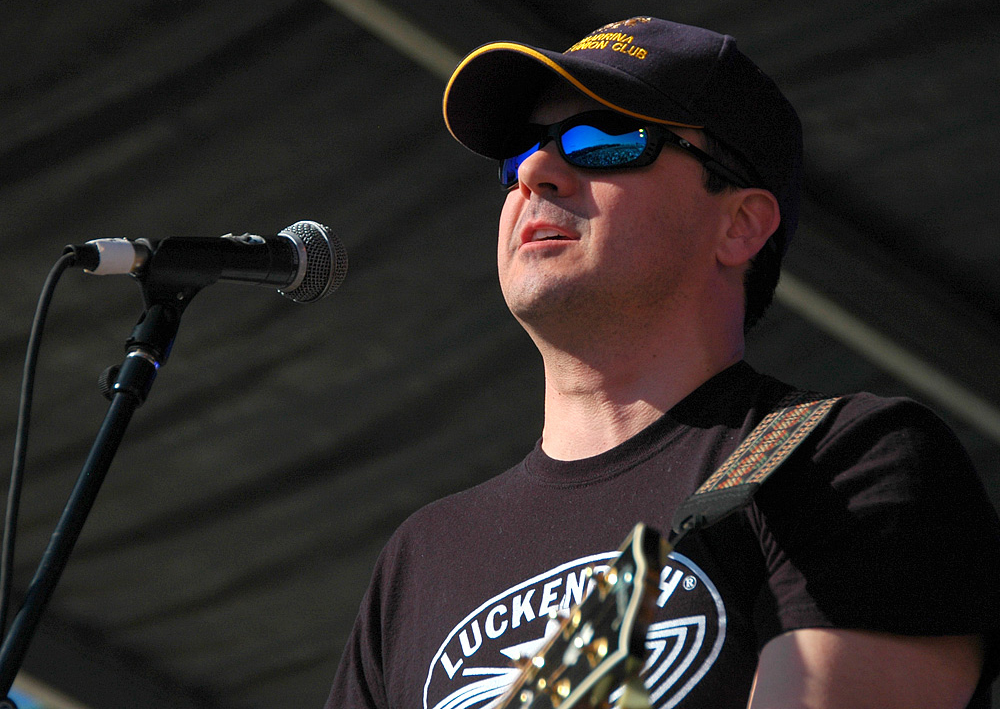 Roger Creager at the Reckless Kelly Celebrity Softball Jam